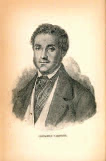 Portrait of Costabile Carducci